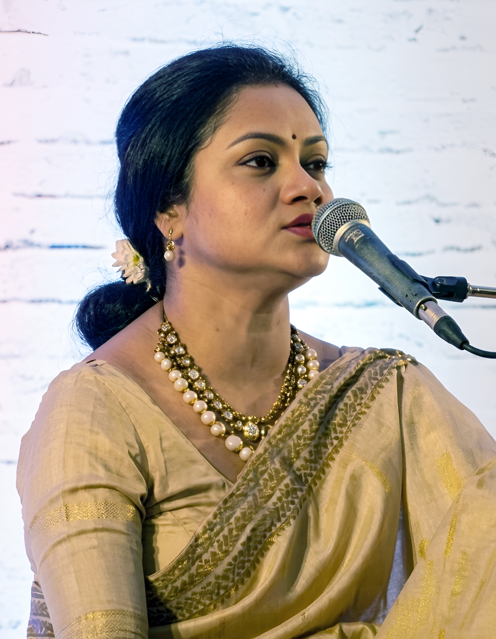 Photo of famous promising Tagore songs singer from Bangladesh, Ms. Adity Mohsin